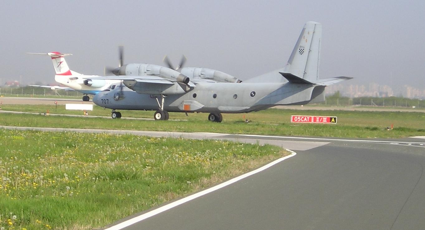 Antonov AN-32b, Croatian Air Force